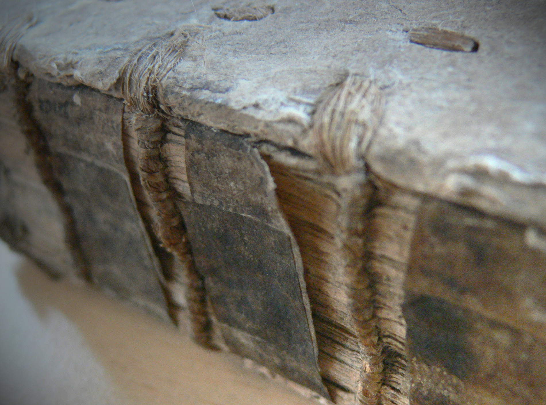 Binding of an early-printed book ; the spine is removed (L'échelle sainte ou Les Degrez pour monter au Ciel, composez par s. Jean Climaque, abbé du monastère du mont Sinaï, traduit du grec en françois par M Arnauld d'Andilly, Paris, Pierre Le Petit, 1661)